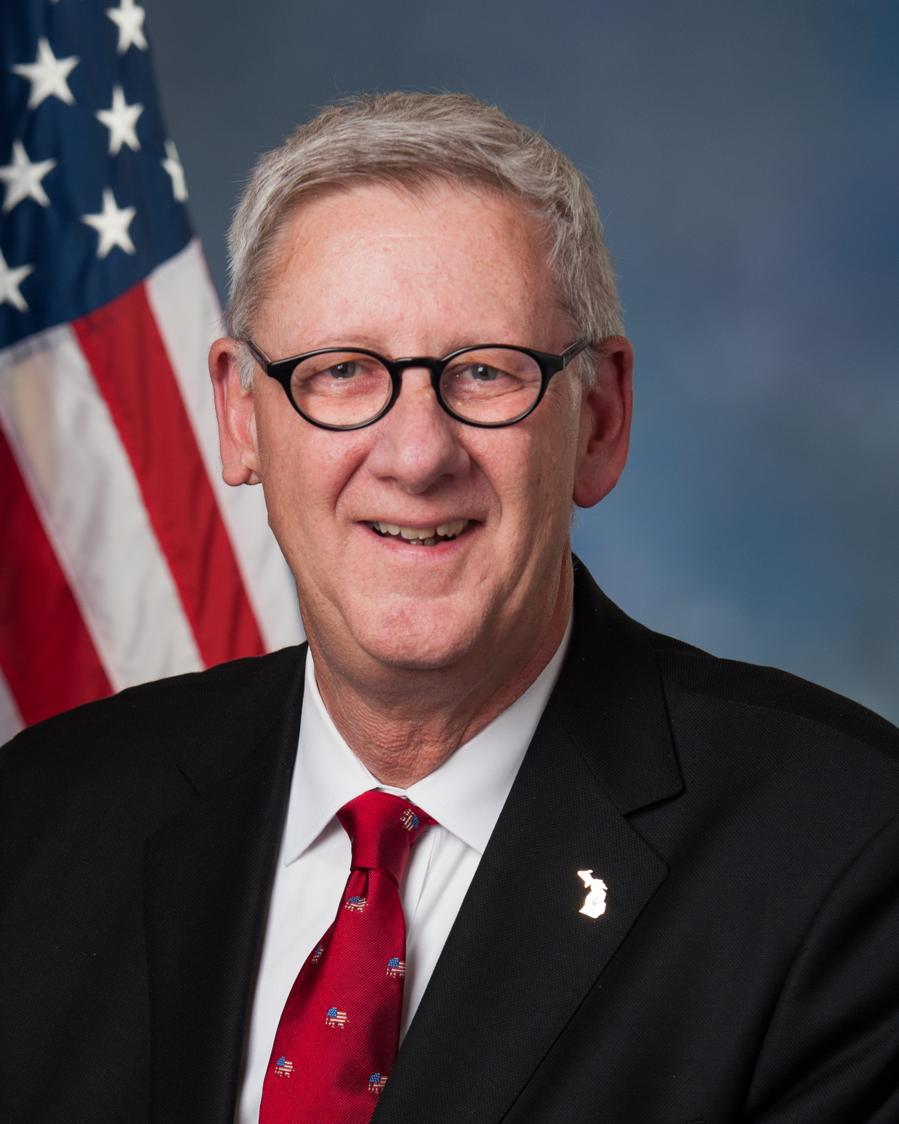 Paul Mitchell official photo, 115th Congress